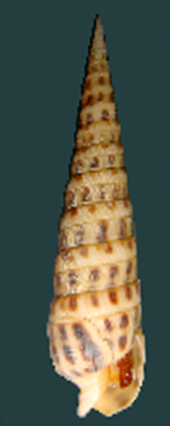 Shell of Terebra ornata.